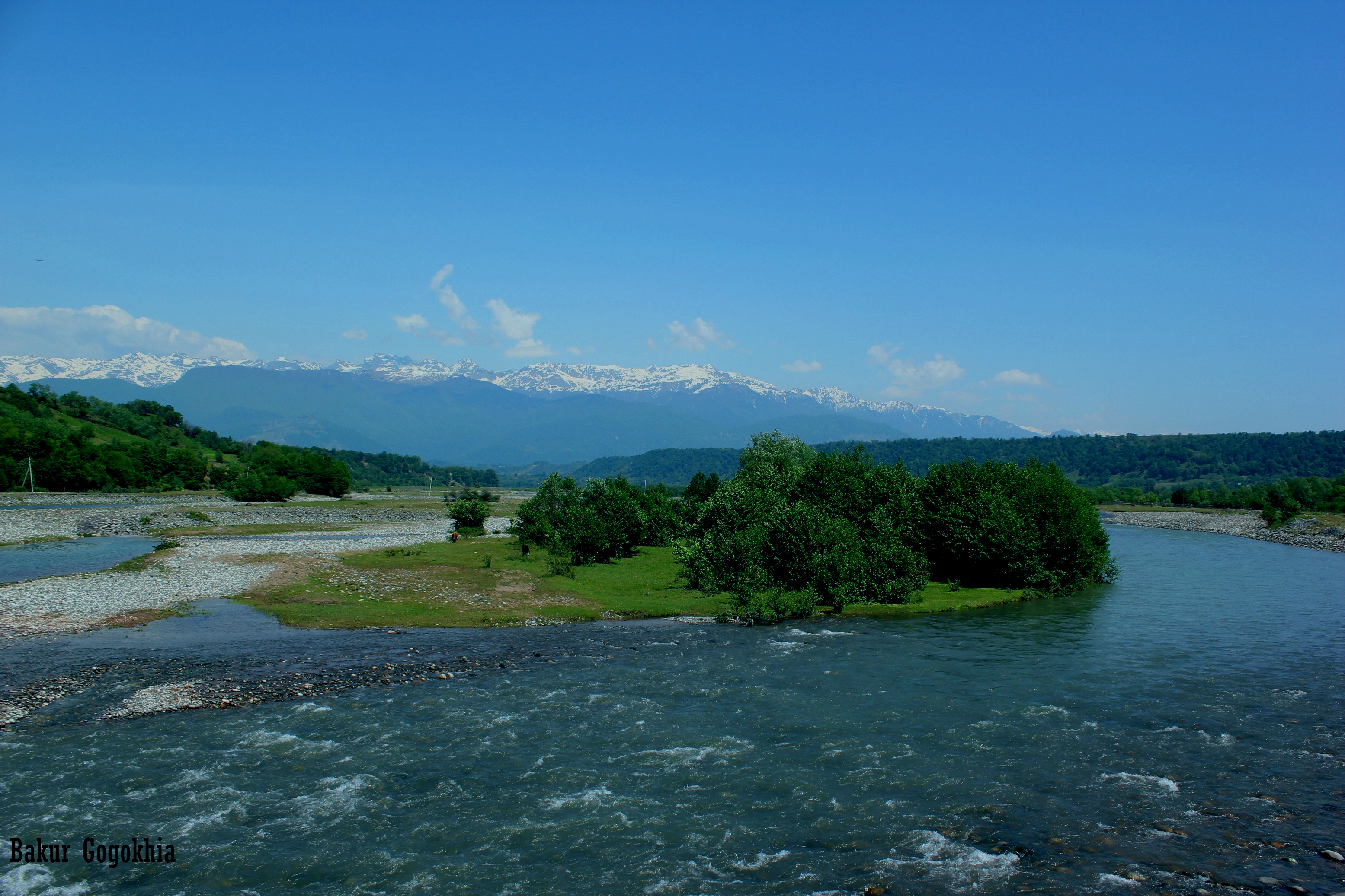 Enguri River, Tzalenjikha, Megrelia, Georgia